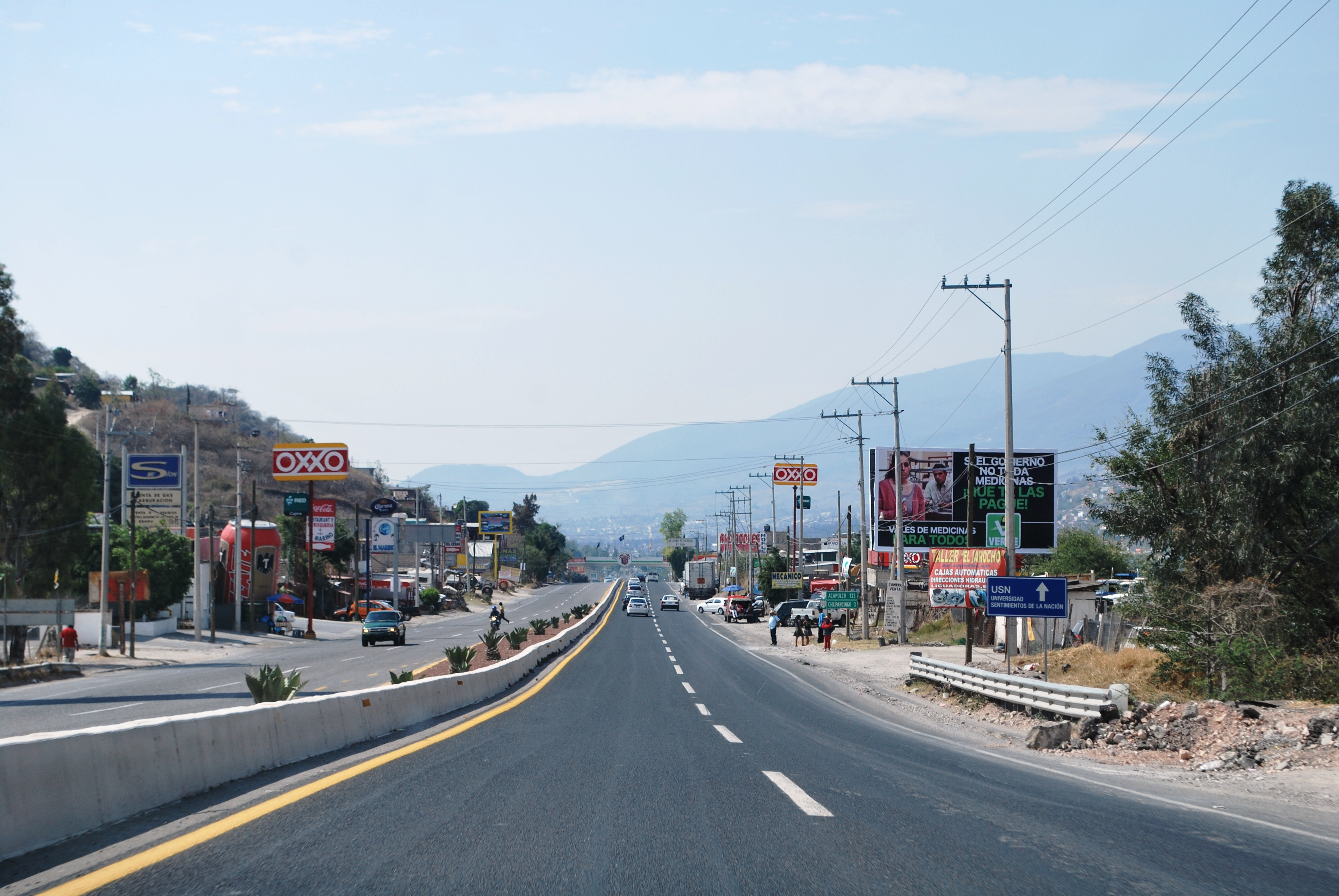 Entering Chilpancingo, Guerrero